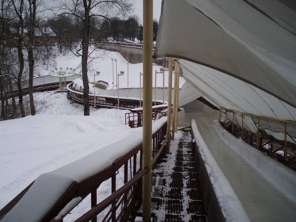 Lower start of Sigulda bobsleigh, skeleton and luge track. Photo by Modris Frikmanis (February 24th, 2006).